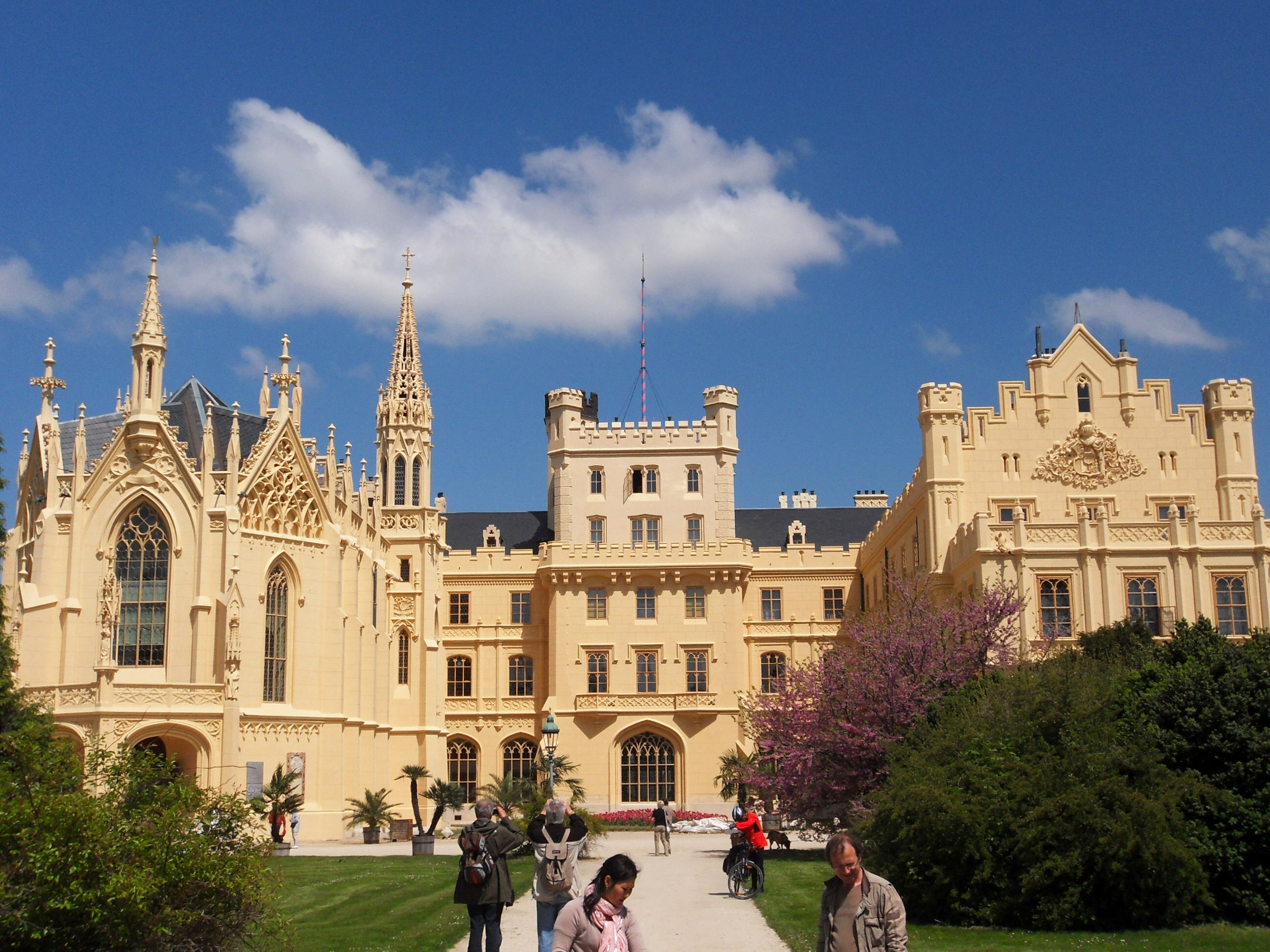 Lednice castle, Lednice, Břeclav district, Czech Republic